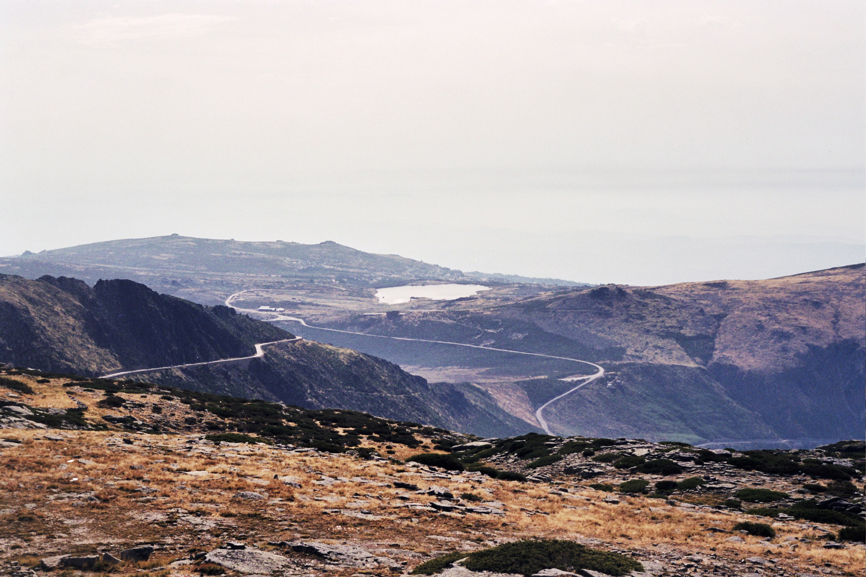 central plateau, dominated by the 7 m Torre (Tower)